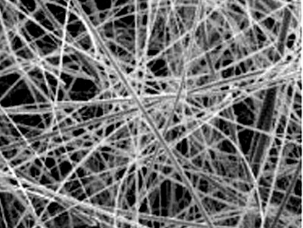 волокно